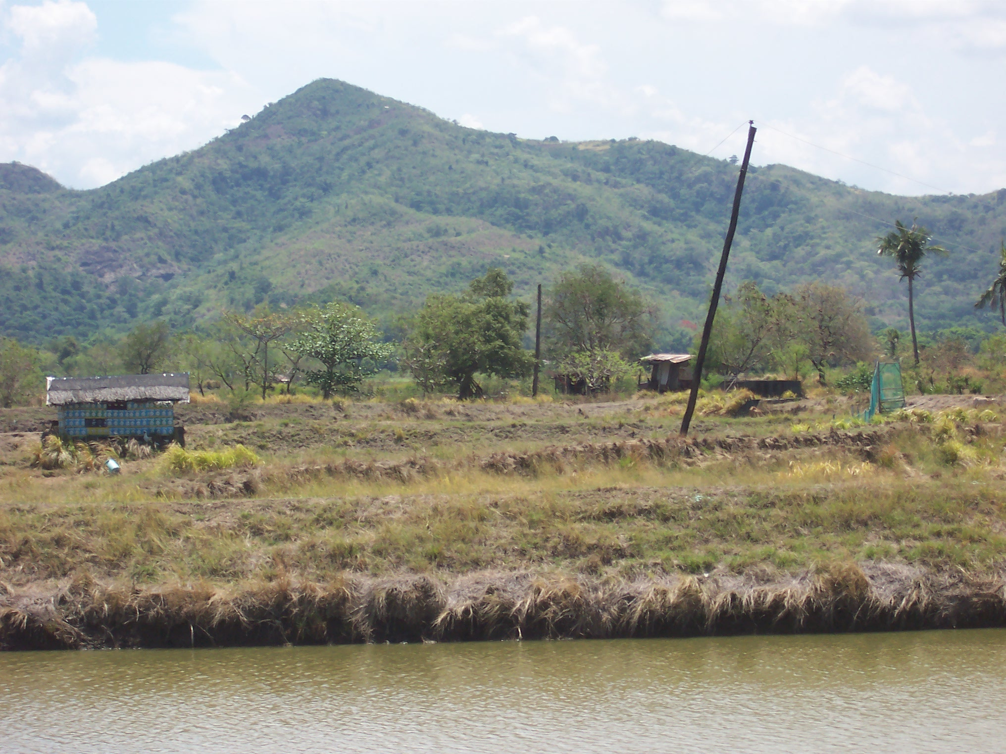 An example of the topography of Nasugbu, Batangas.